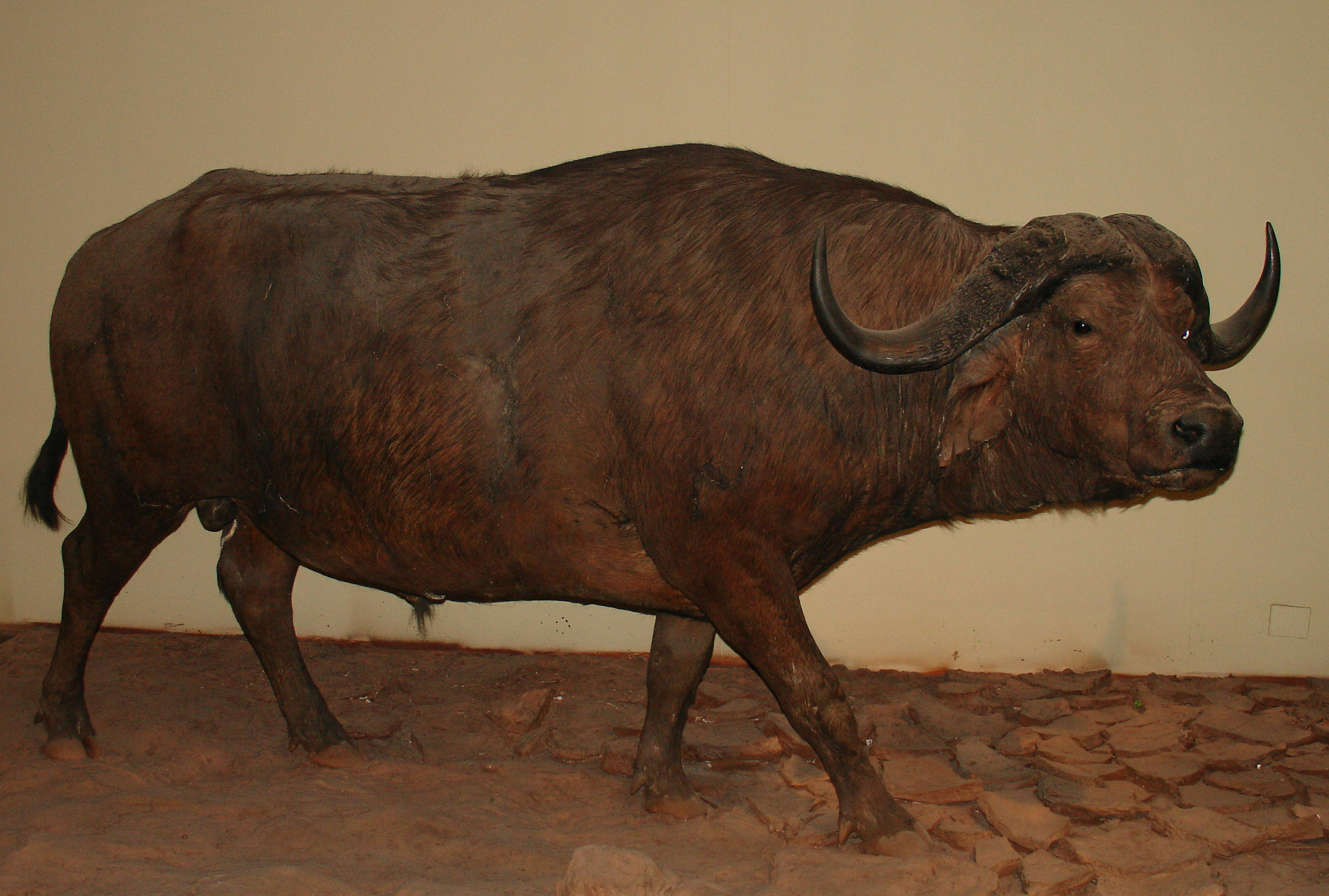 Syncerus caffer - stuffed. The exhibit from the Museum of Natural History in Berlin (Museum für Naturkunde) Syncerus caffer - wypchany eksponat z Muzeum Historii Naturalnej w Berlinie